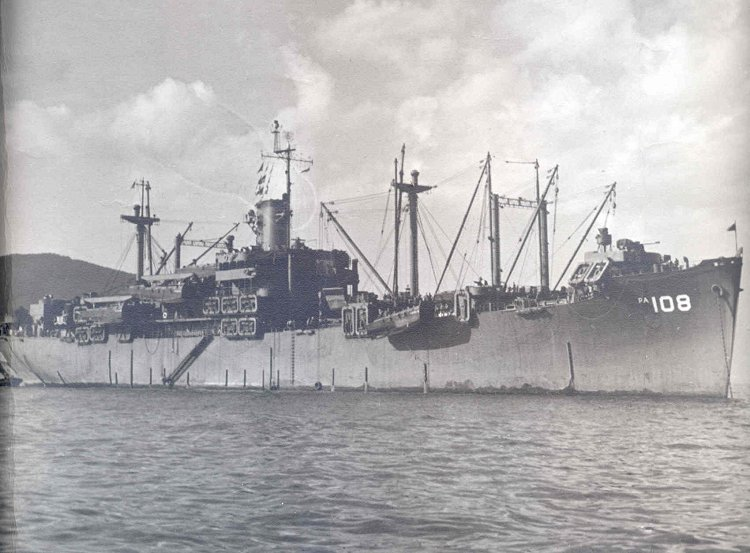 USS Goshen (APA-108) at anchor, date and place unknown.